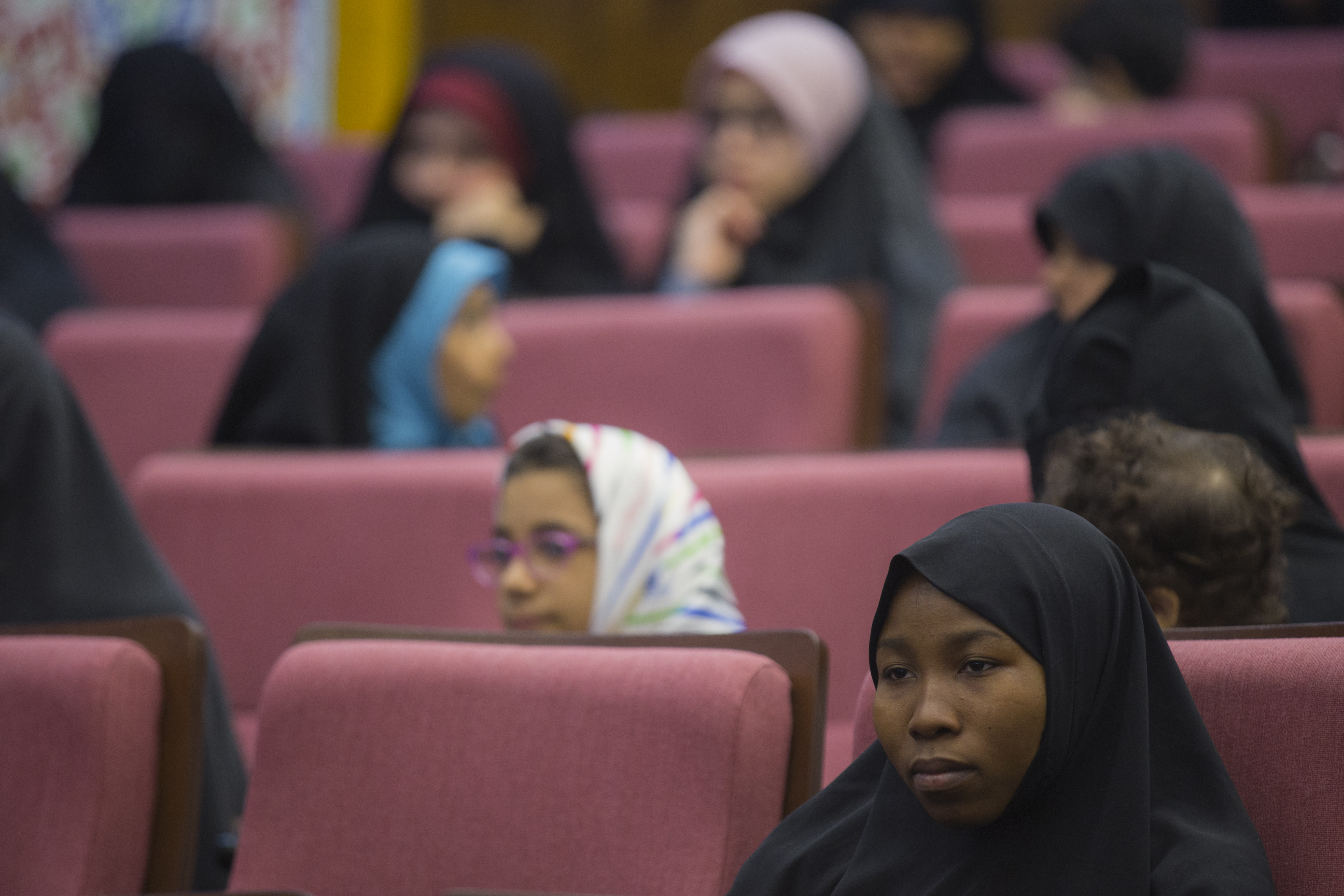 Al-Mustafa International University (MIU) (Arabic: جامعة المصطفىٰ العالمية; Persian: جامعة المصطفی العالمیه) is an international academic, Islamic and university-style seminary institute in Qom, Iran established in 1979. It has international branches and affiliate schools. Photos : International Quran Competition for Students of Islamic Seminary Schools Photographer: Mostafa Meraji